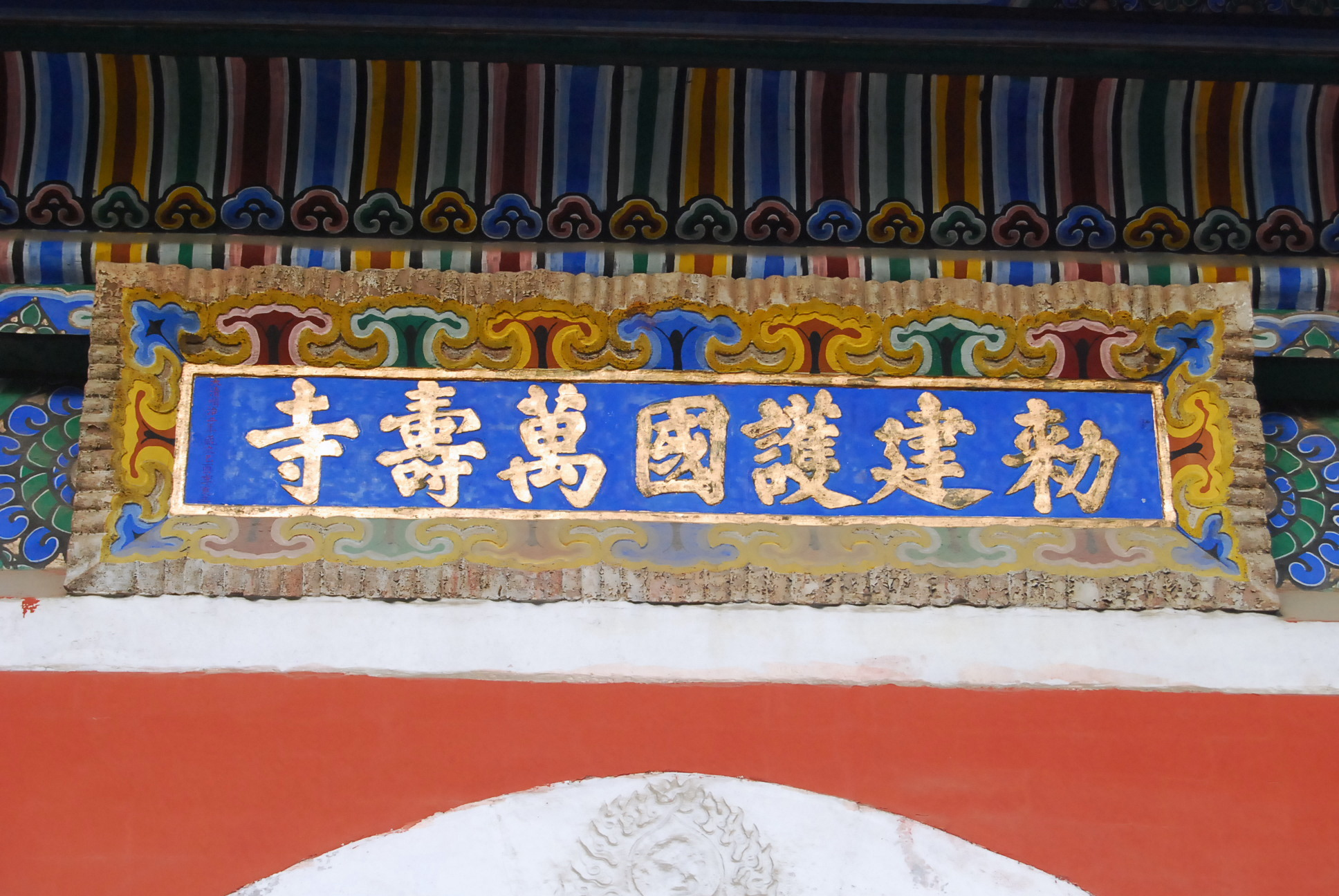 wanshousi, Location